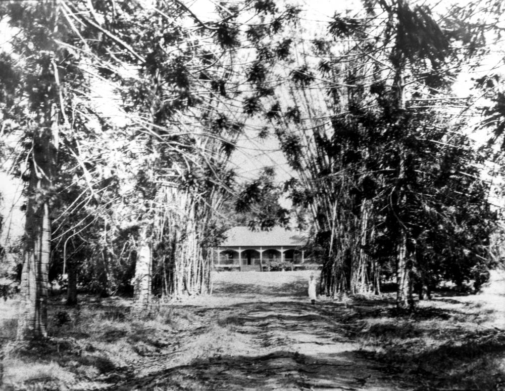 Approach to Tom Petries home Murrumba at North Pine now Petrie